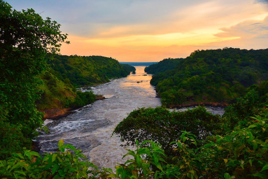 Below Murchison Falls.